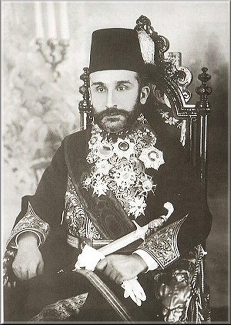 Alexander Mavrogentis, prince of Samos